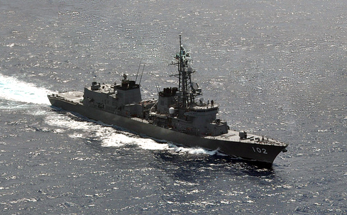 JS Harusame (DD-102) transits the Paciic Ocean during a passing exercise with USS Lassen (DDG-82) en route to Kure, Japan. (U.S. Navy photo)